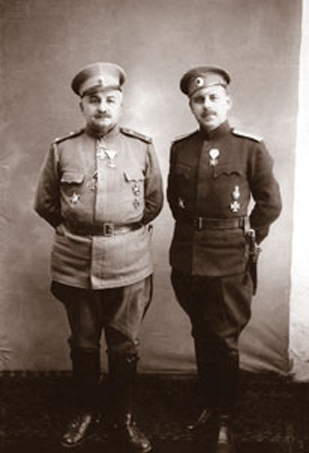 General Kiselov and his chief of staff colonel Noykov after the fall of Tutrakan.